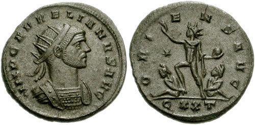 AURELIAN. 270-275 AD. Antoninianus (22mm, 3.44 gm, 5h). Ticinum mint, 4th officina, 3rd emission, October 274 AD. IMP C AVRELIANVS AVG, radiate and cuirassed bust right ORIENS AVG, Sol, radiate, standing left, chlamys across shoulder, right hand raised, holding globe; two bound captives seated to left and right below; QXXT. RIC V 151; MIR 47, 71b4; BN 615.